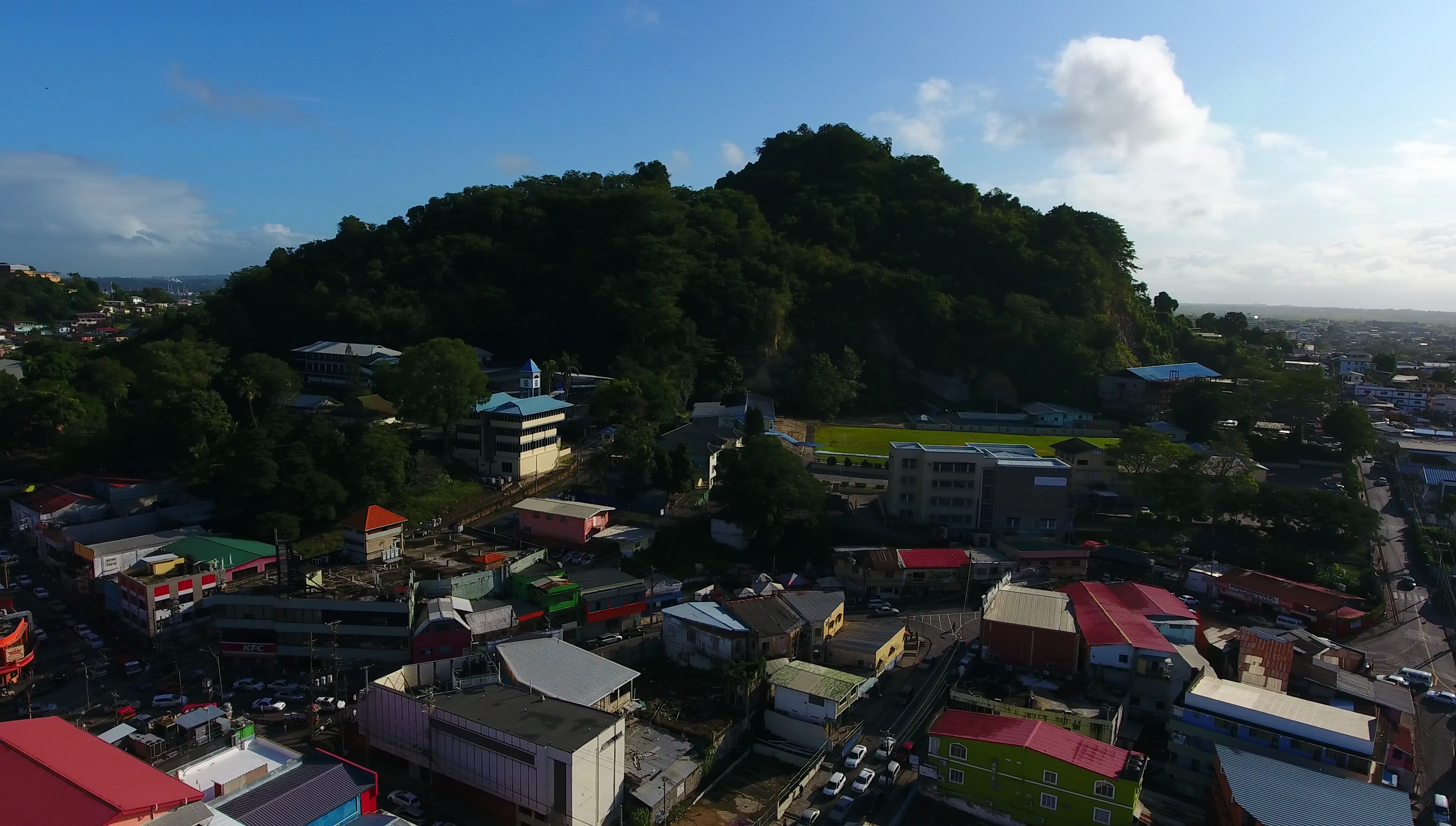 San Fernando Hill, San Fernando, Trinidad and Tobago. Photo taken as part of the Southern Trinidad Aerial Photo Project, a small project sponsored by WMDE. Drone used: DJI Phantom 4. Snapshot taken from video footage via VLC.